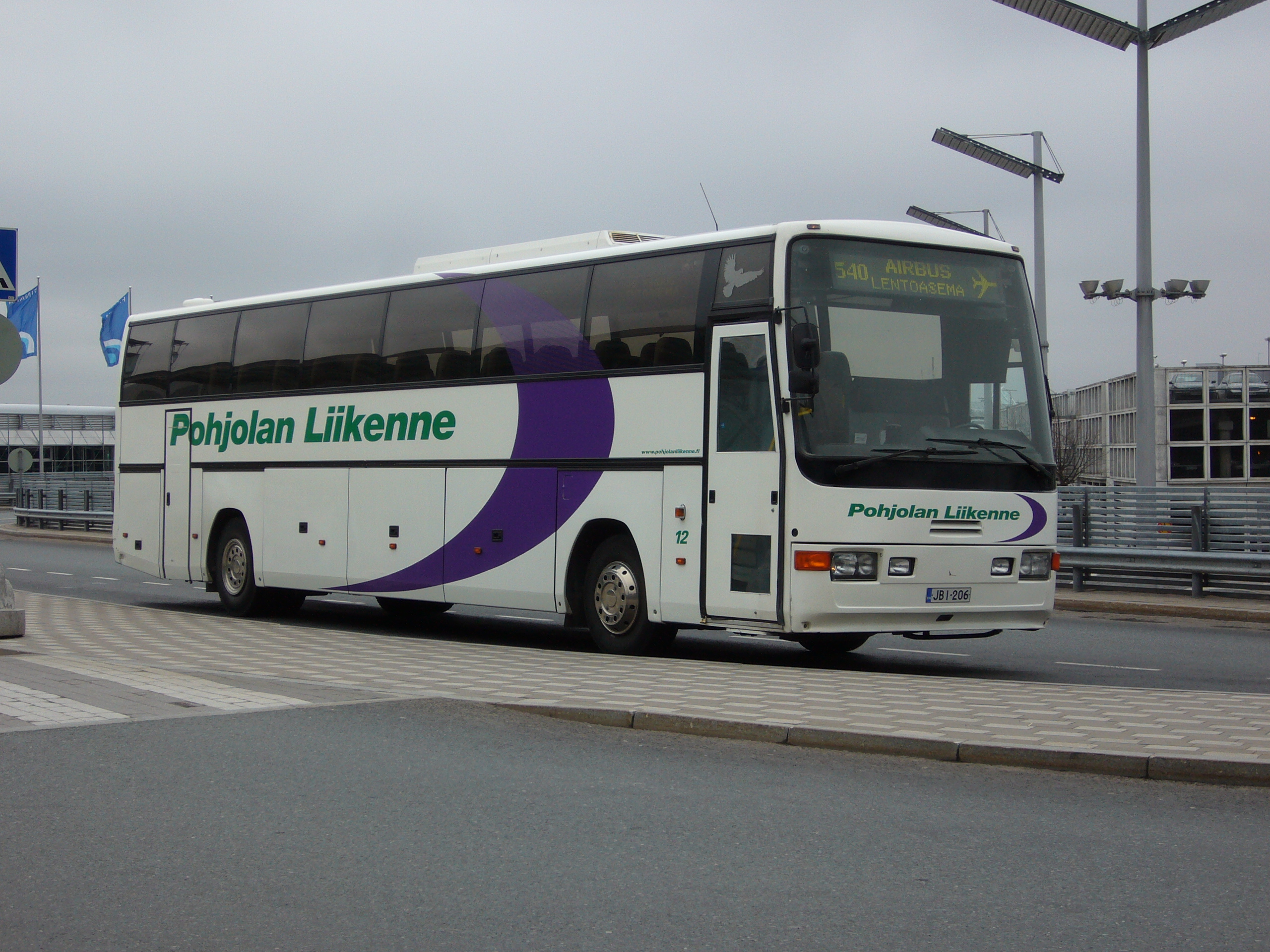 Pohjolan Liikenne bus number 12, a Scania K113 / Lahti Eagle at Helsinki-Vantaa airport, international terminal.